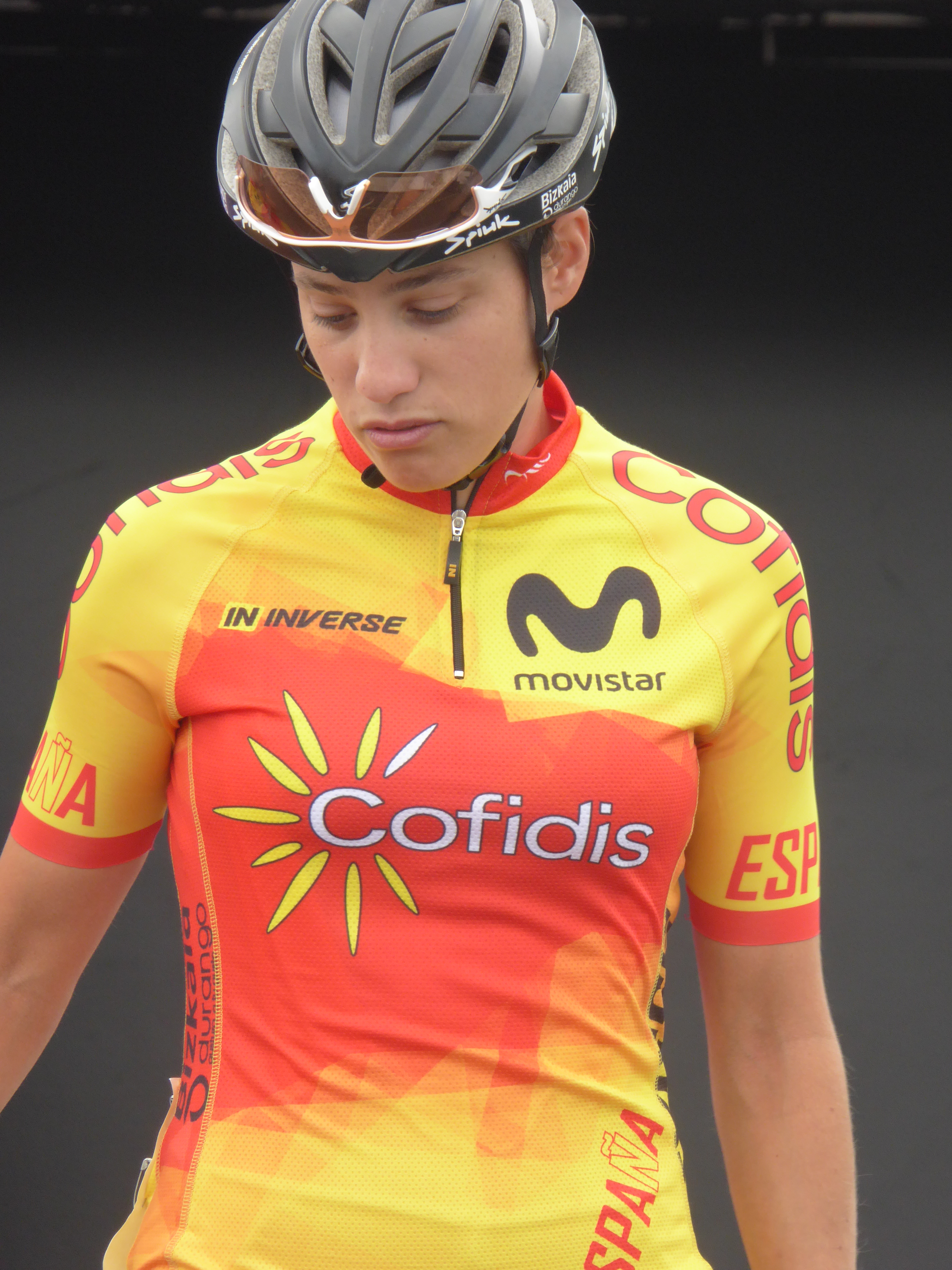 Lucía González (Spain), prior to the women's road race at the 2018 UEC European Road Cycling Championships in Glasgow.